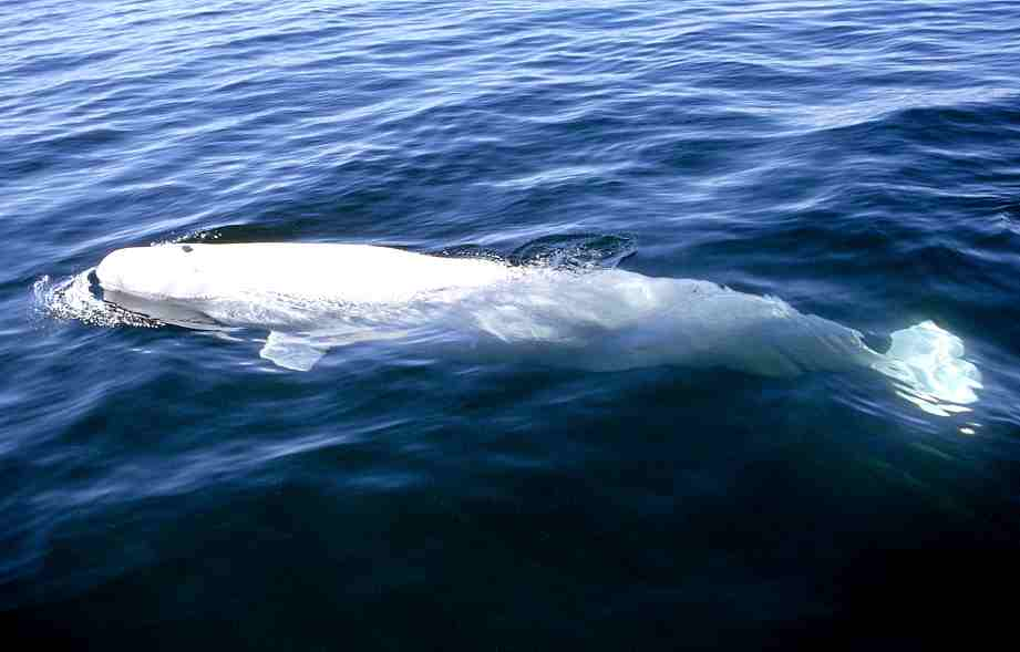 White Whale or Beluga (Delphinapterus leucas) in Churchill River near Hudson Bay (Canada).